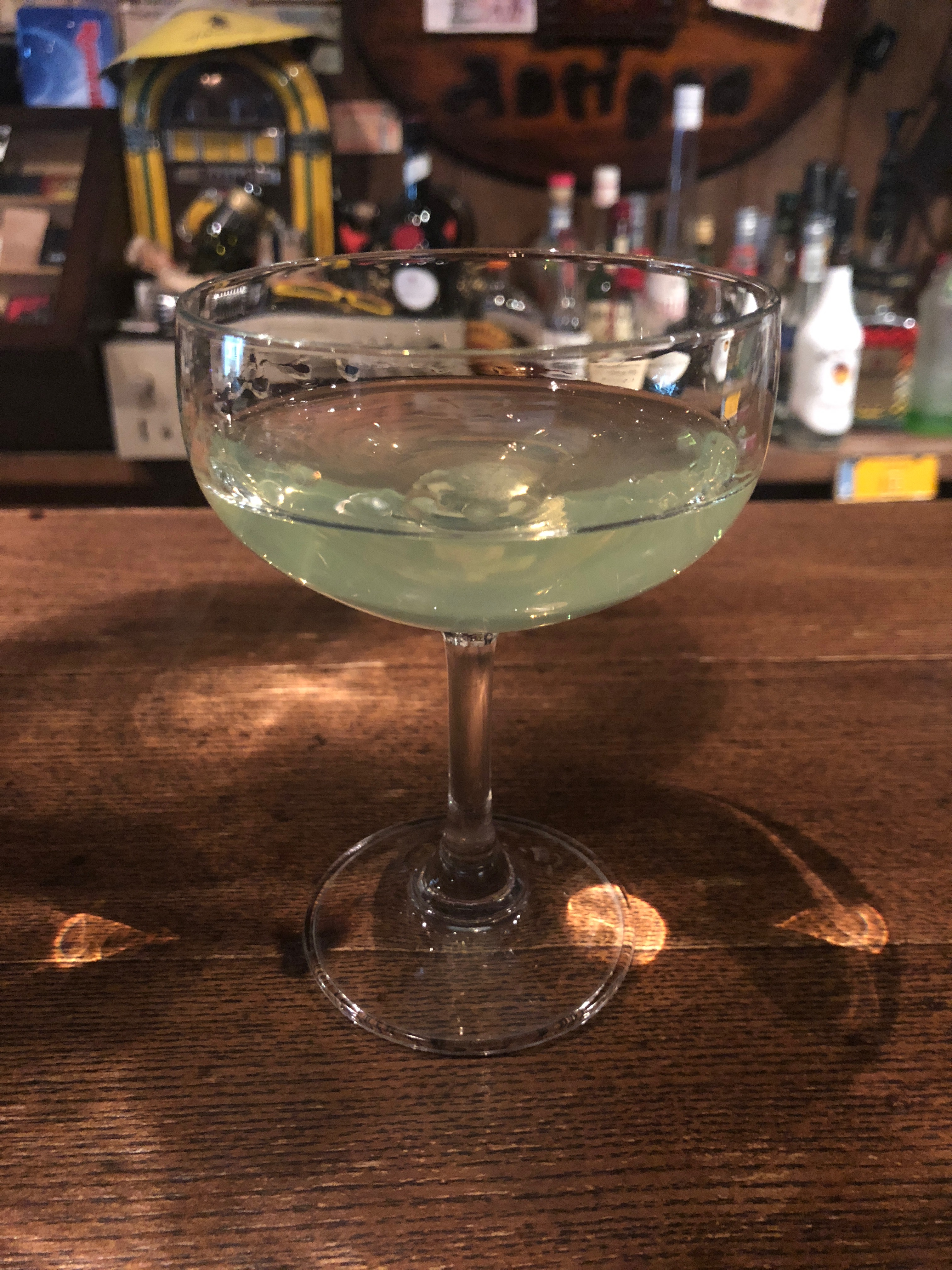 Modern Mickey Slim (Absinth + Gin)